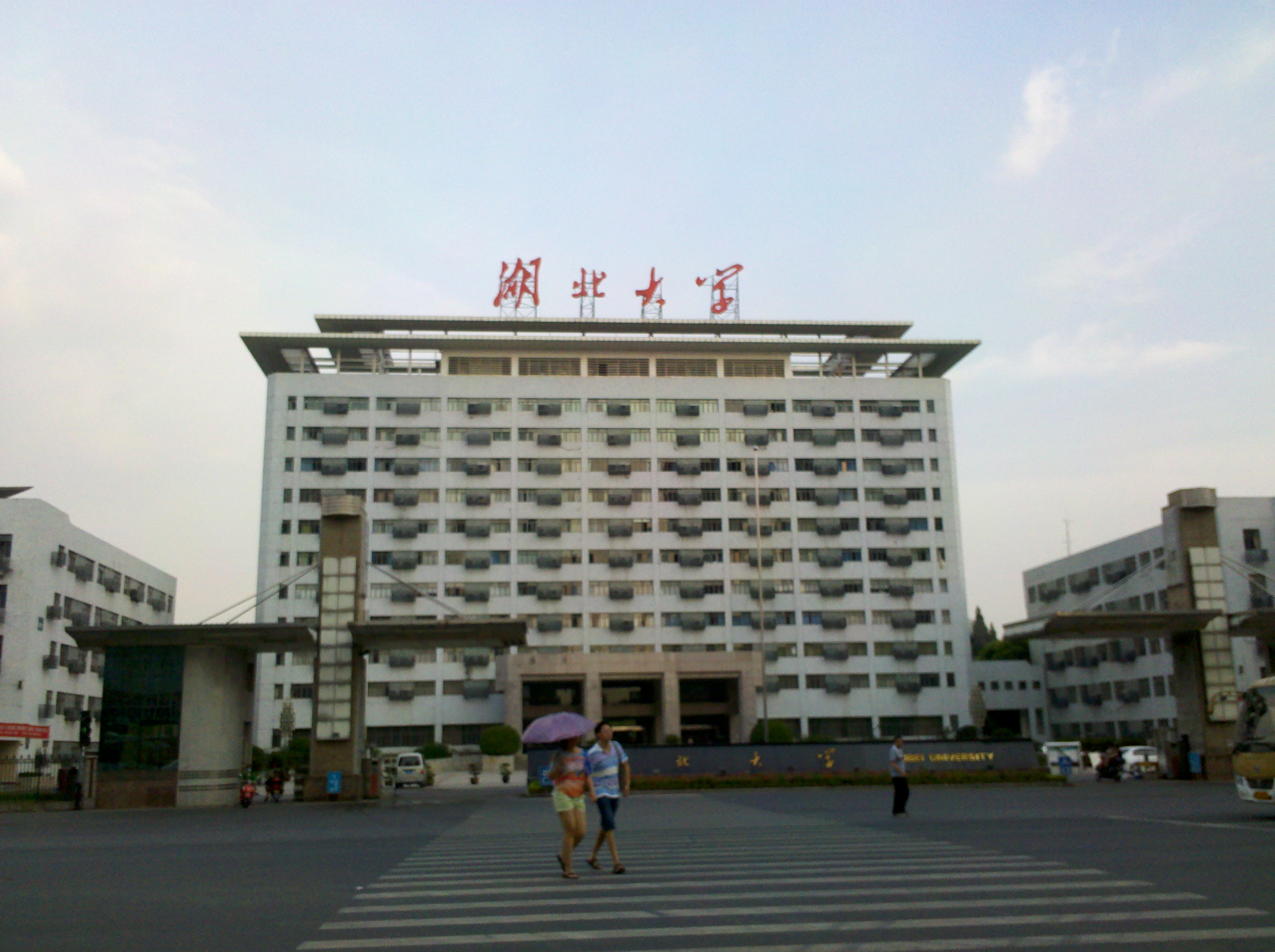 Hubei University Gate